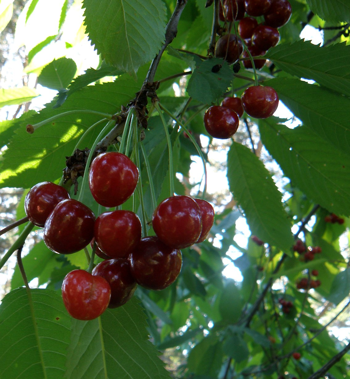 Sweet cherry